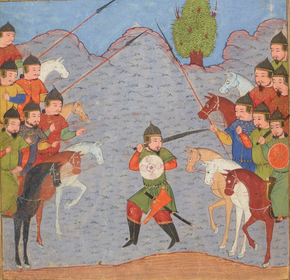 Negotiations between representatives of Ghazan and Baydu. Jami' al-tawarikh, Rashid al-Din.